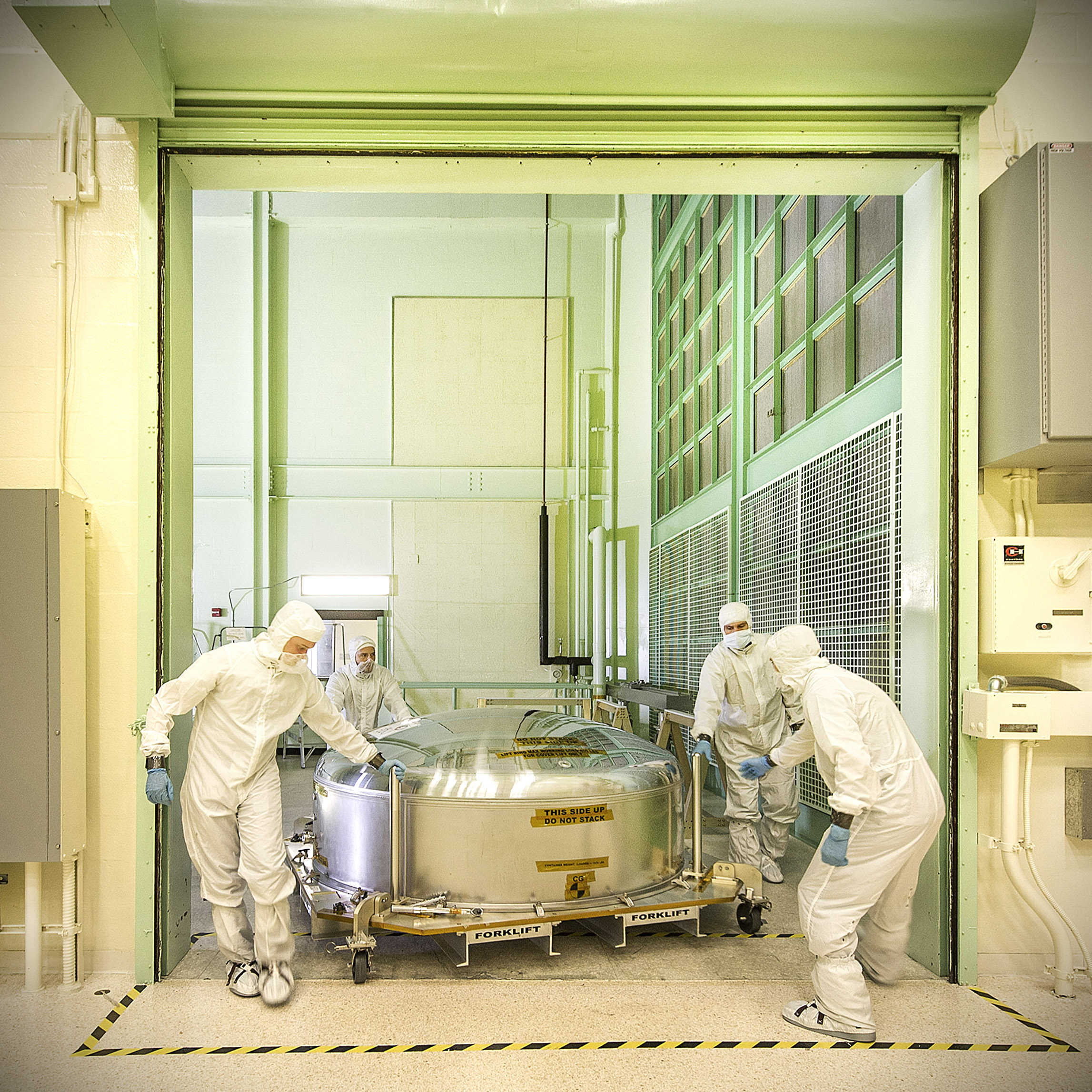 This is the James Webb Space Telescope ETU (engineering test unit) primary mirror segment returning to the cleanroom at NASA Goddard after undergoing some tests at our new Calibration, Integration, and Alignment Facility (CIAF). Credit: NASA/Goddard/Chris Gunn NASA image use policy. NASA Goddard Space Flight Center enables NASA’s mission through four scientific endeavors: Earth Science, Heliophysics, Solar System Exploration, and Astrophysics. Goddard plays a leading role in NASA’s accomplishments by contributing compelling scientific knowledge to advance the Agency’s mission. Follow us on Twitter Like us on Facebook Find us on Instagram